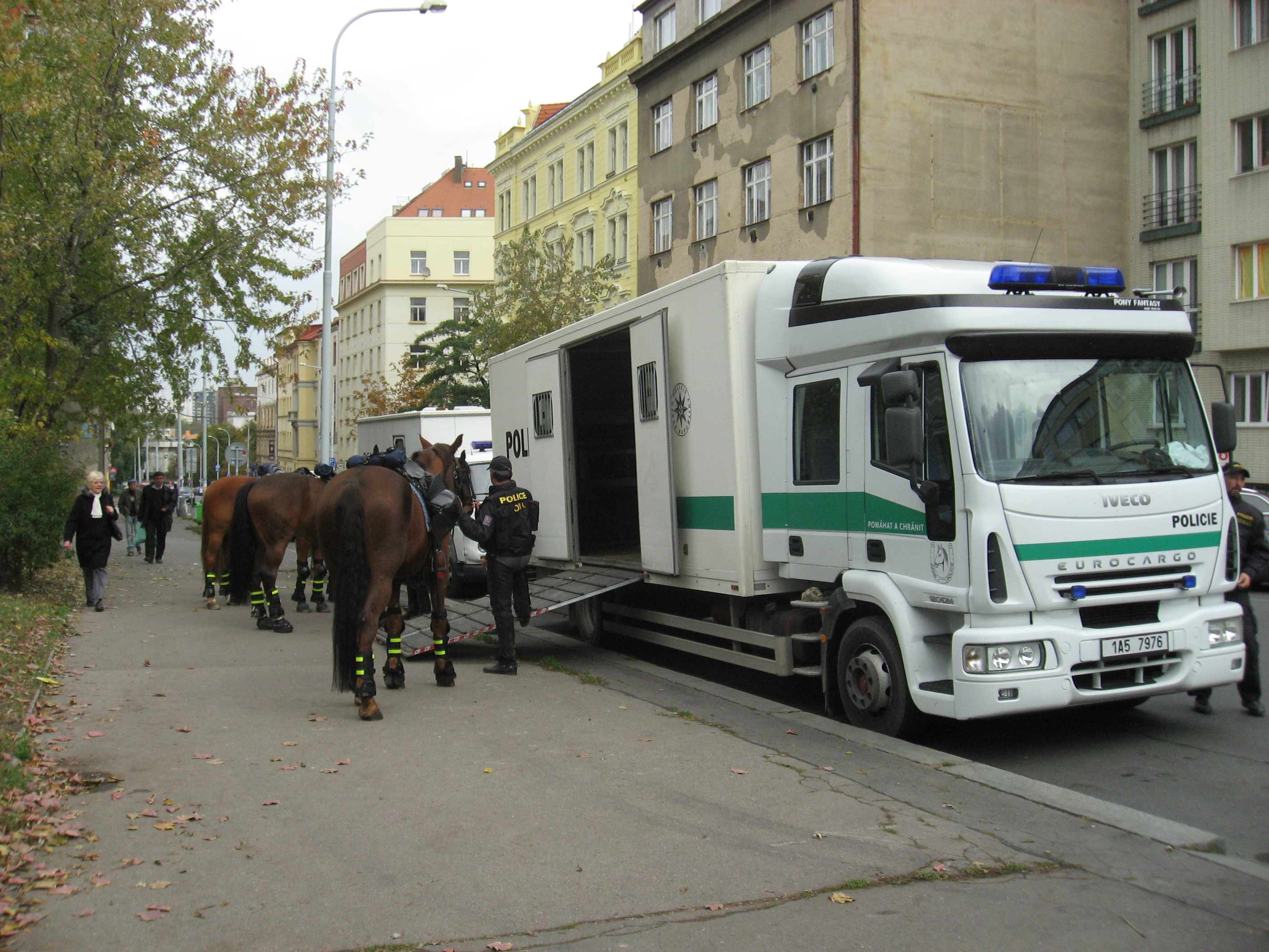 Iveco Eurocargo Mk2 police truck in Prague, Czech Republic.